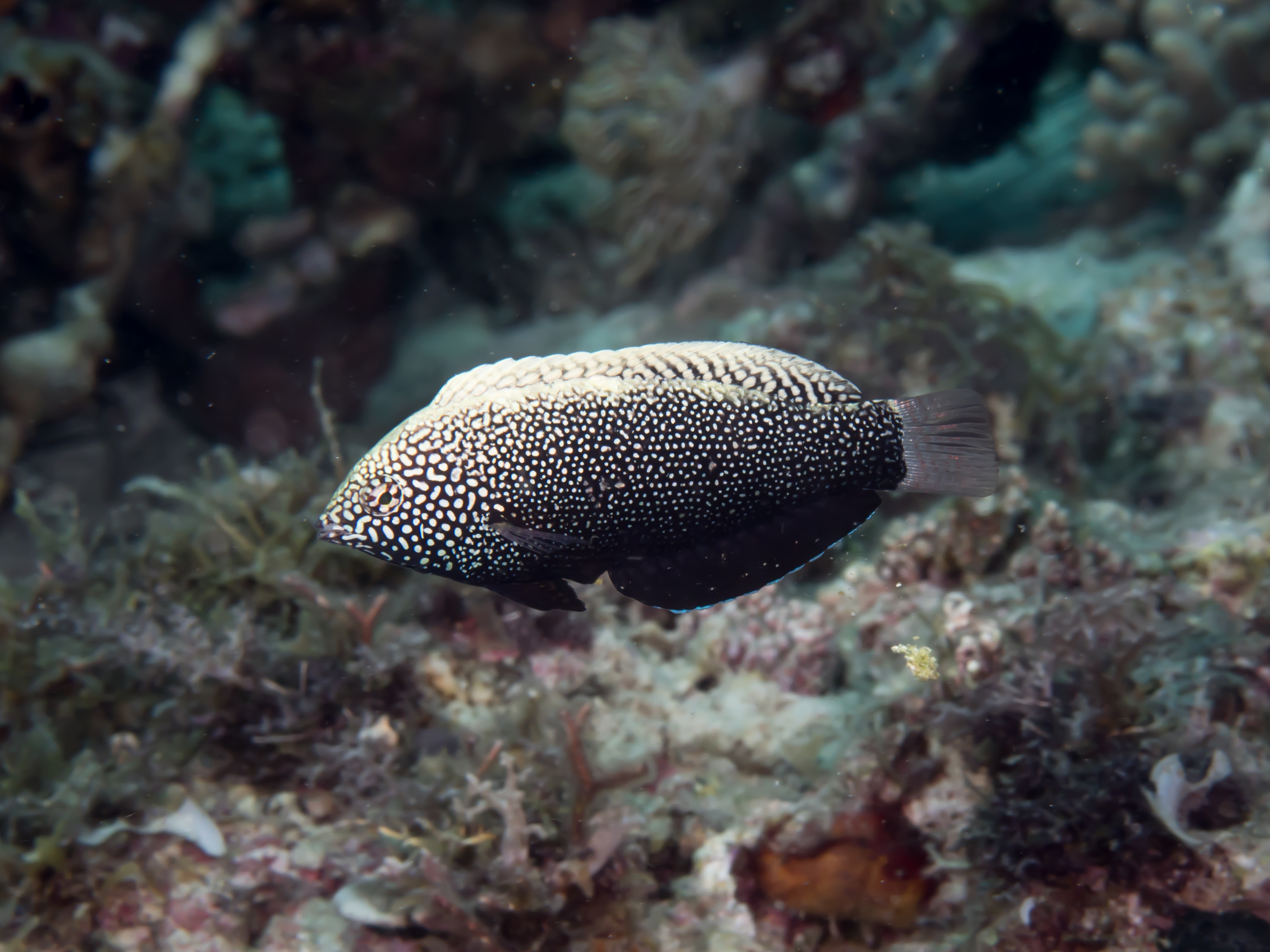 Romblon, Philippines - Black leopard wrasse juvenile (Macropharyngodon negrosensis)